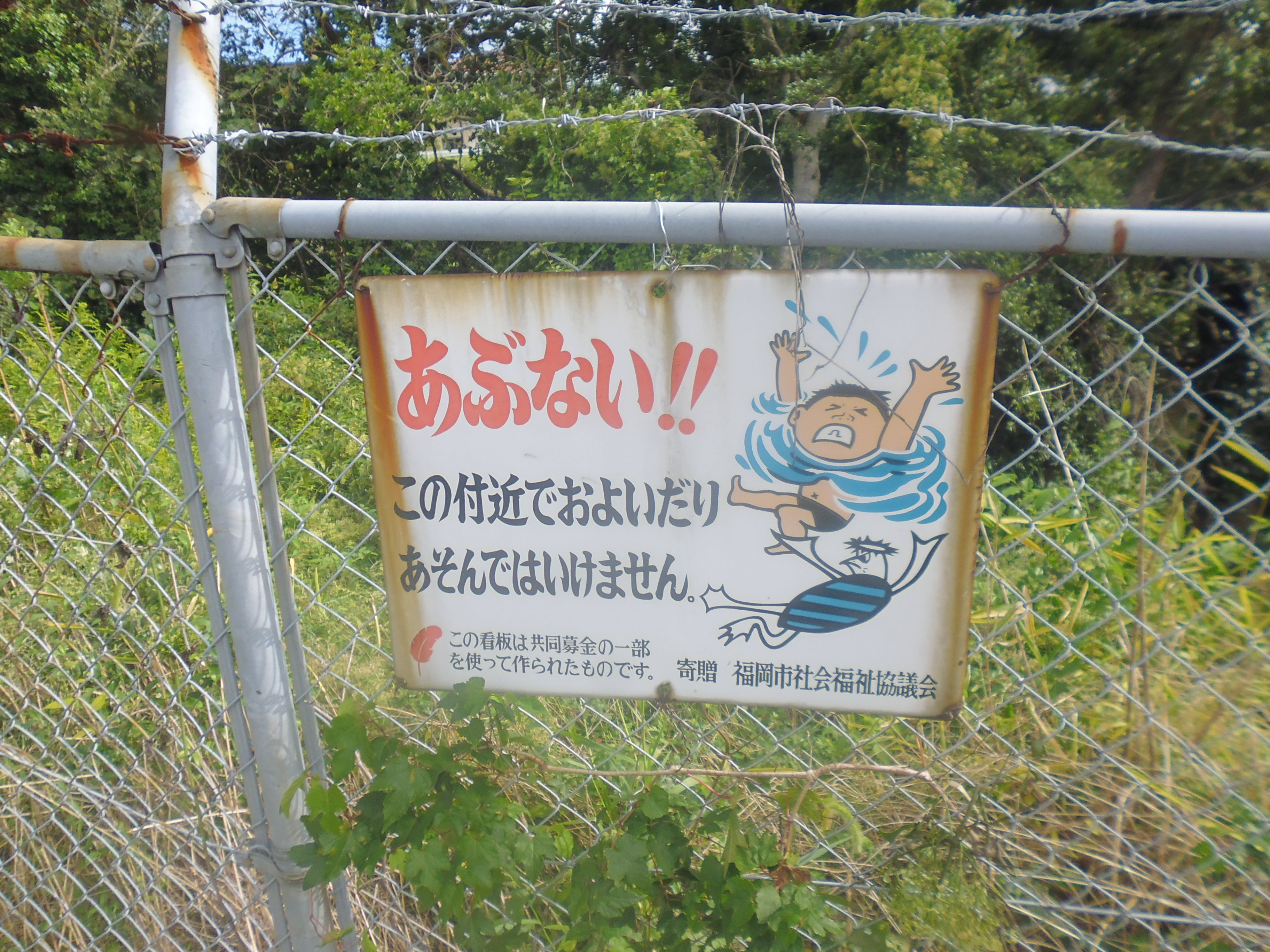 Sign warning of Kappas in the lake, located on a fence surrounding lake in Kasshidai, Fukuoka, Japan. Taken in Oct-2018